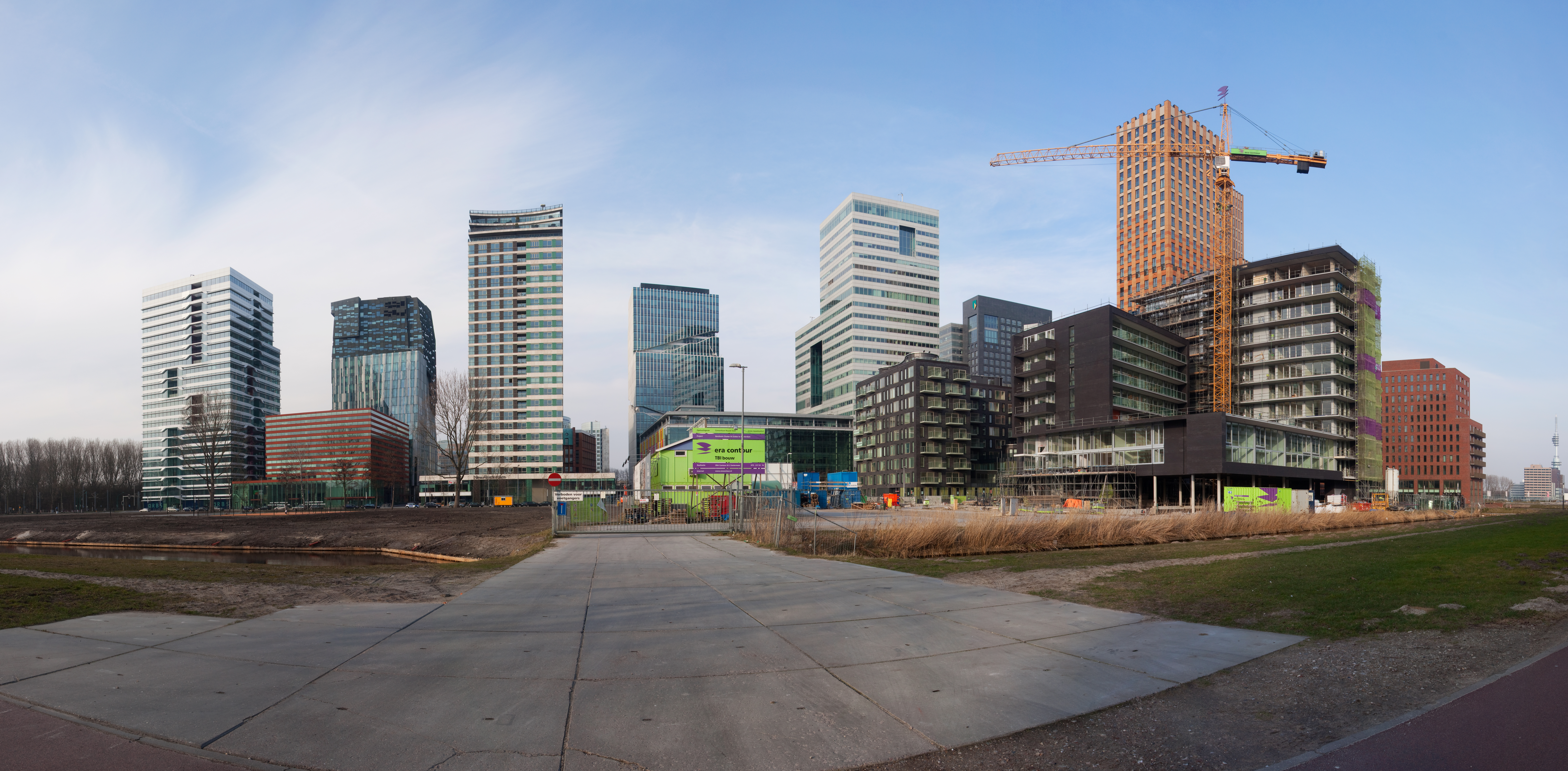 The Zuidas district is the main business district of Amsterdam and is still largely under construction. Many Dutch multinationals have their headquarters here.